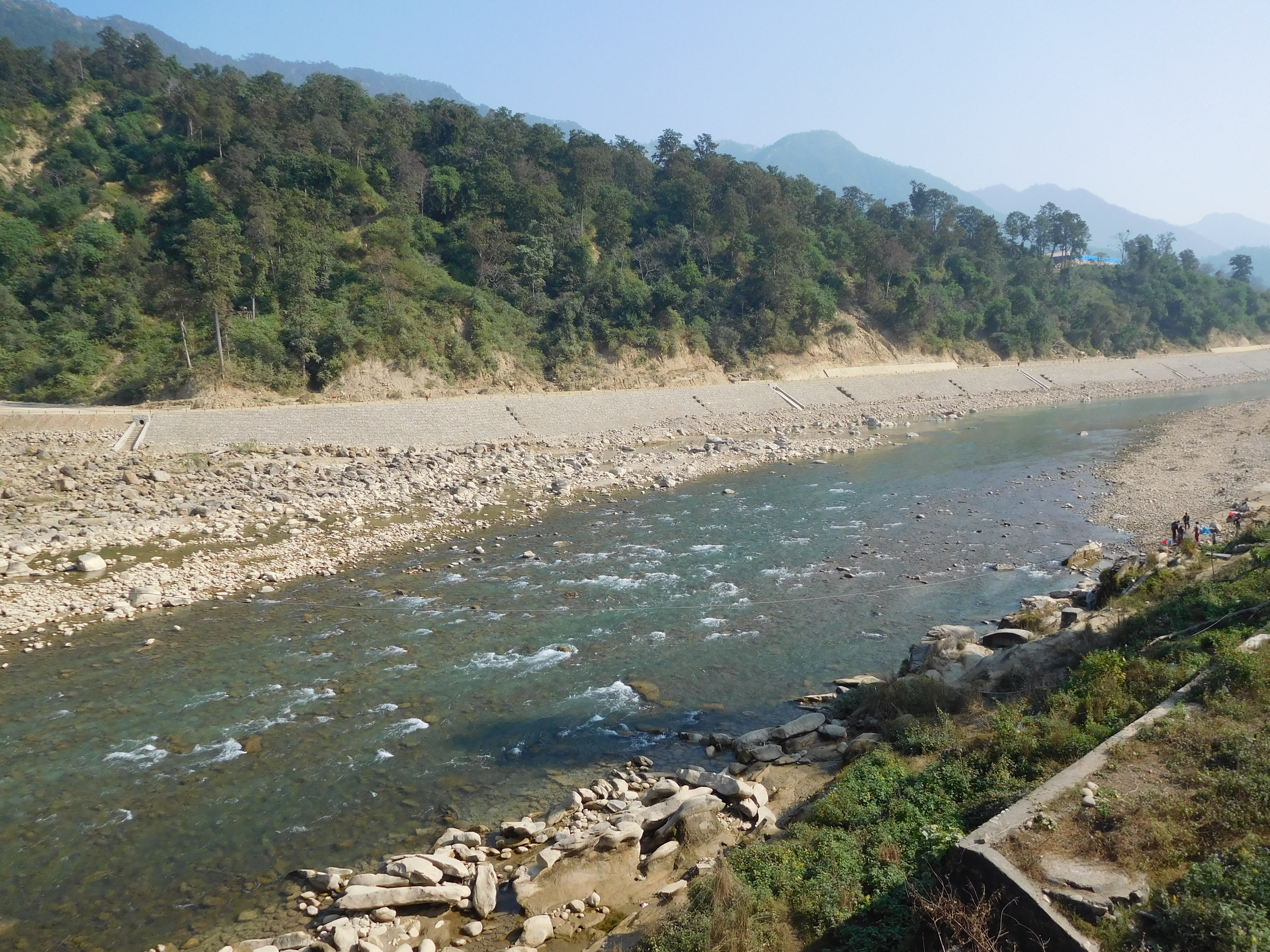 View of Babai river clicked from the bridge, Bardiya District, Nepal.